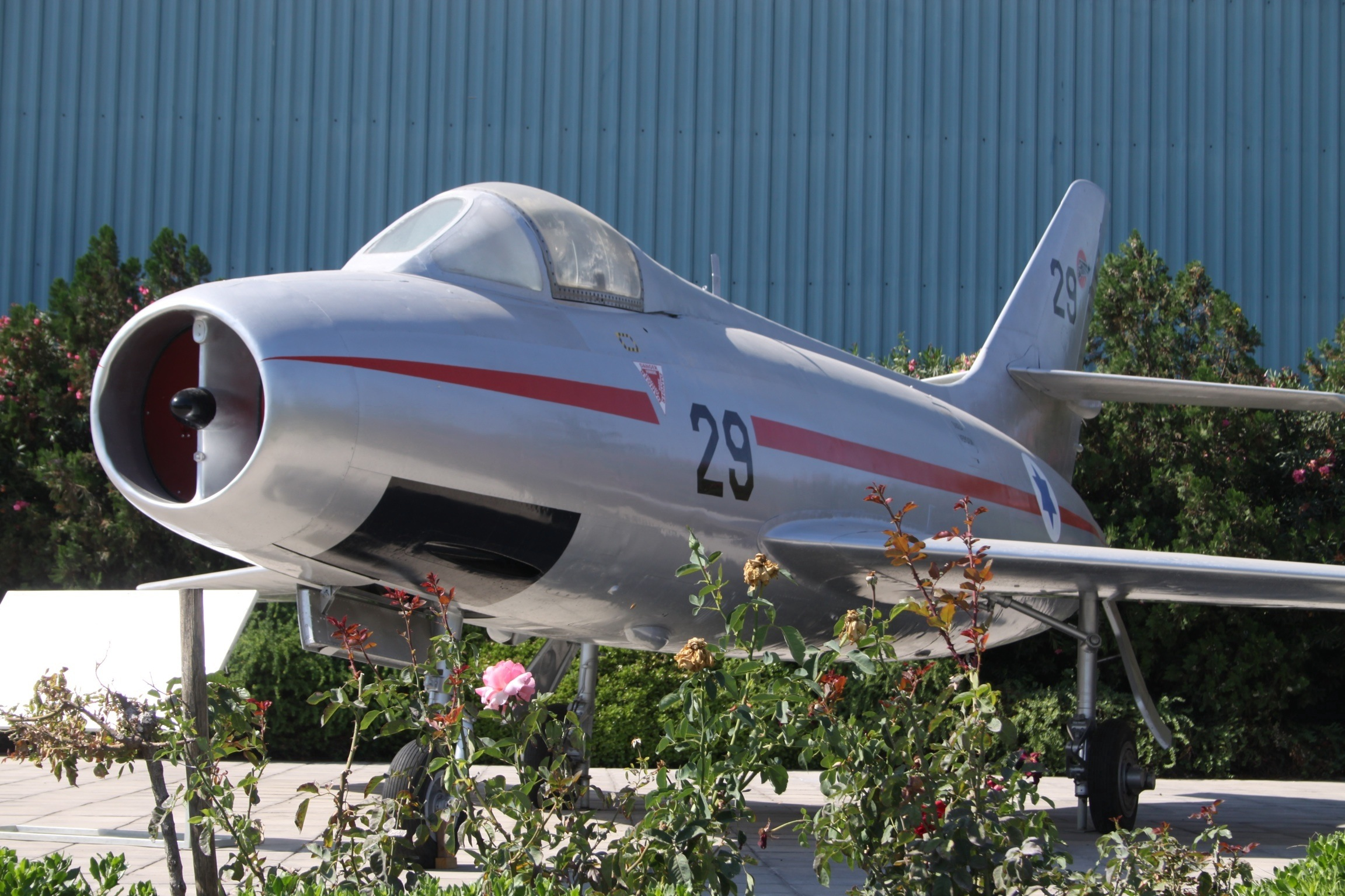 At Santiago Los Cerillos